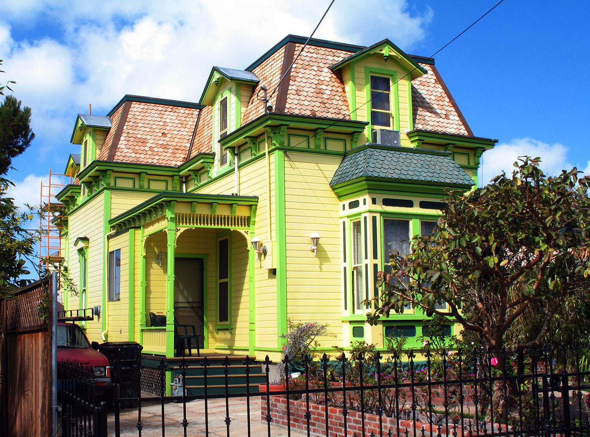 Victorian House in South Park, San Diego